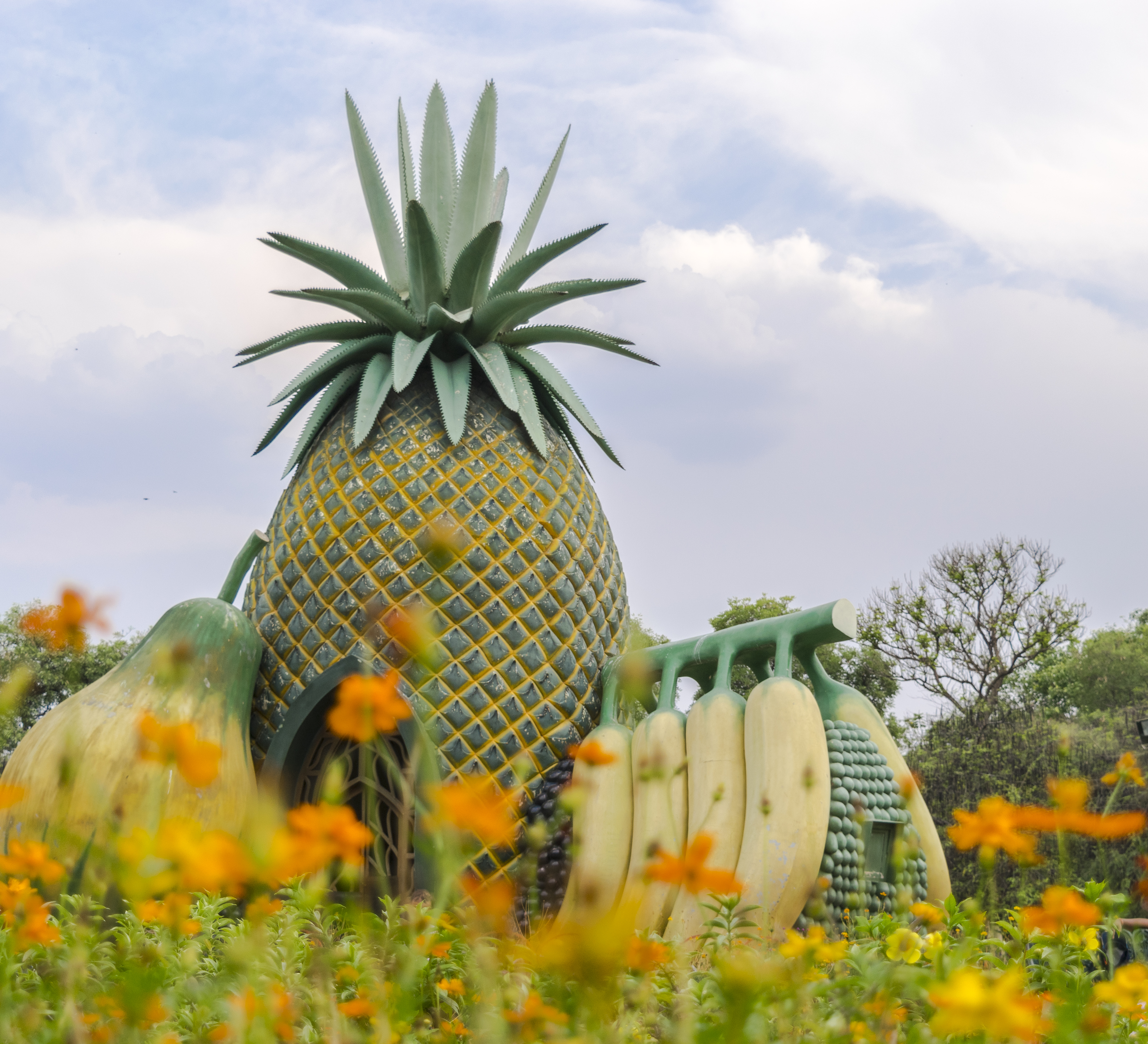 NTR gardens Hyderabad